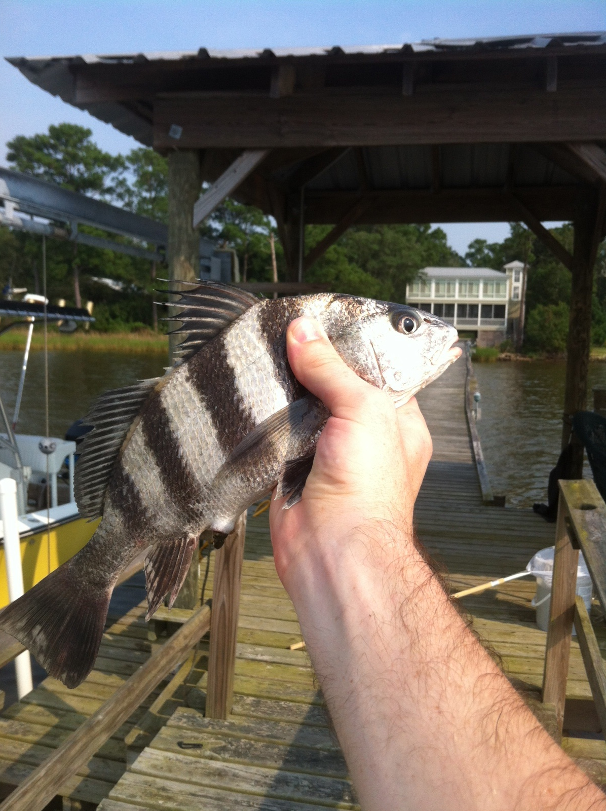 Weeks Bay in Maginola Springs, AL